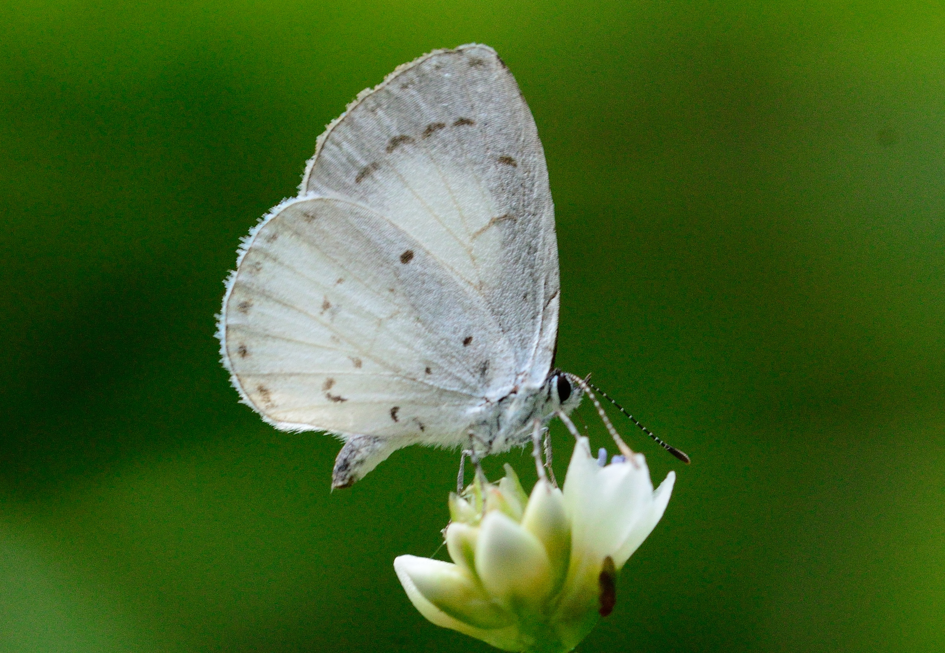 Udara akasa - White hedge blue - Coorg, Karnataka